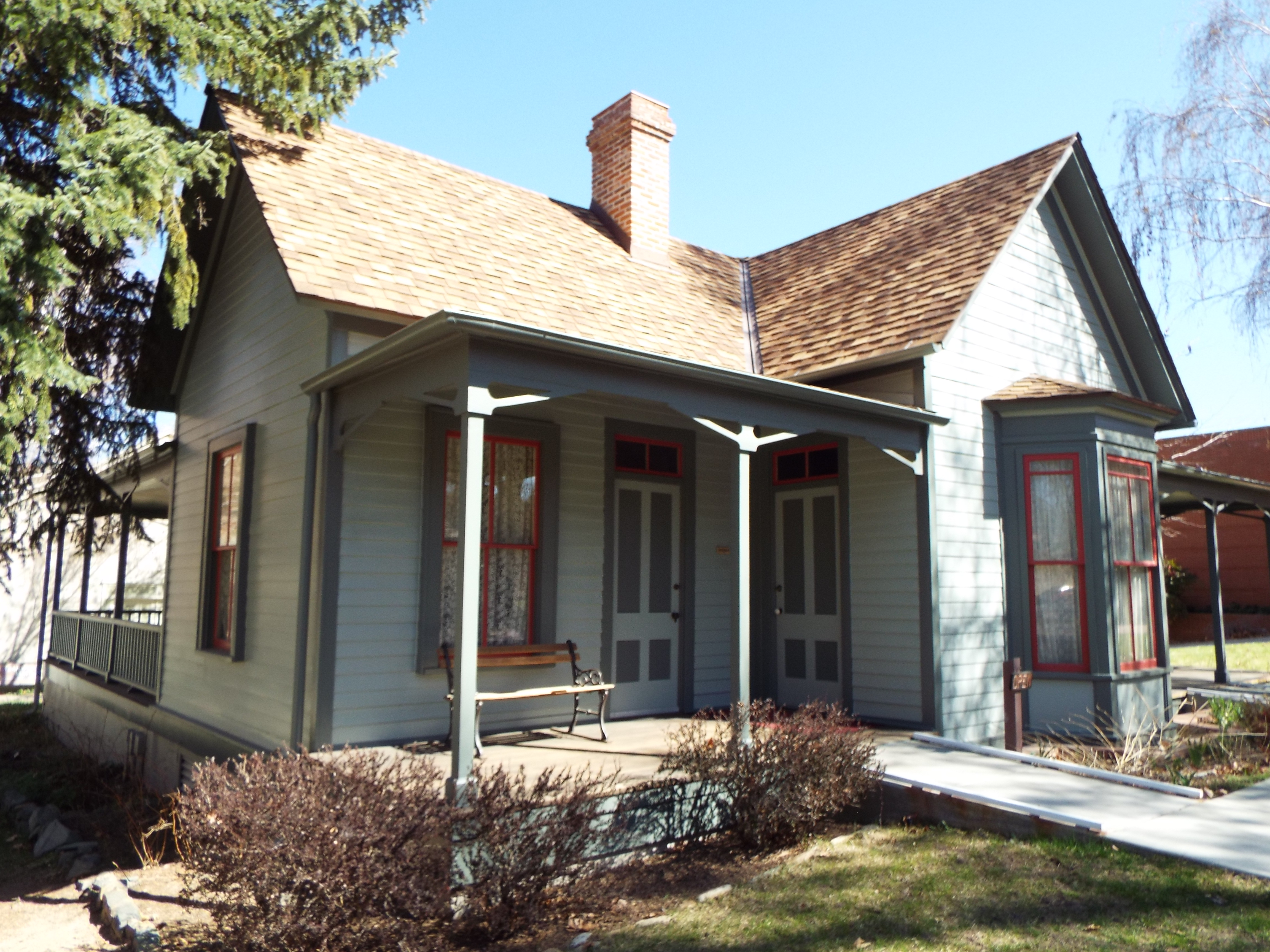 The Frémont House. John Charles Frémont, the fifth Territorial Governor, and his wife Jessie and daughter Lily rented it as a residence for $90 per month, from 1878 to 1881.